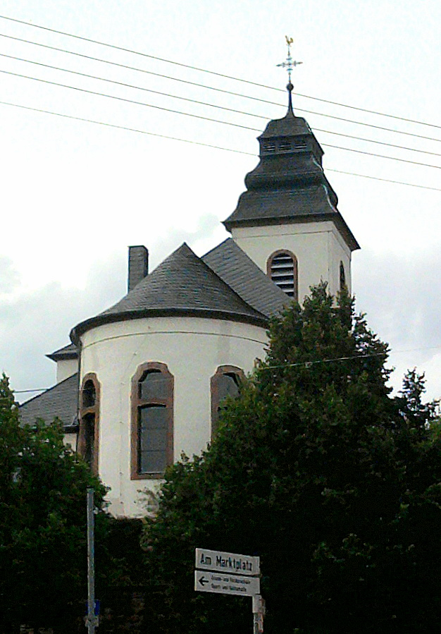 Exterior of the protestant church in Uchtelfangen, Saarland, Germany